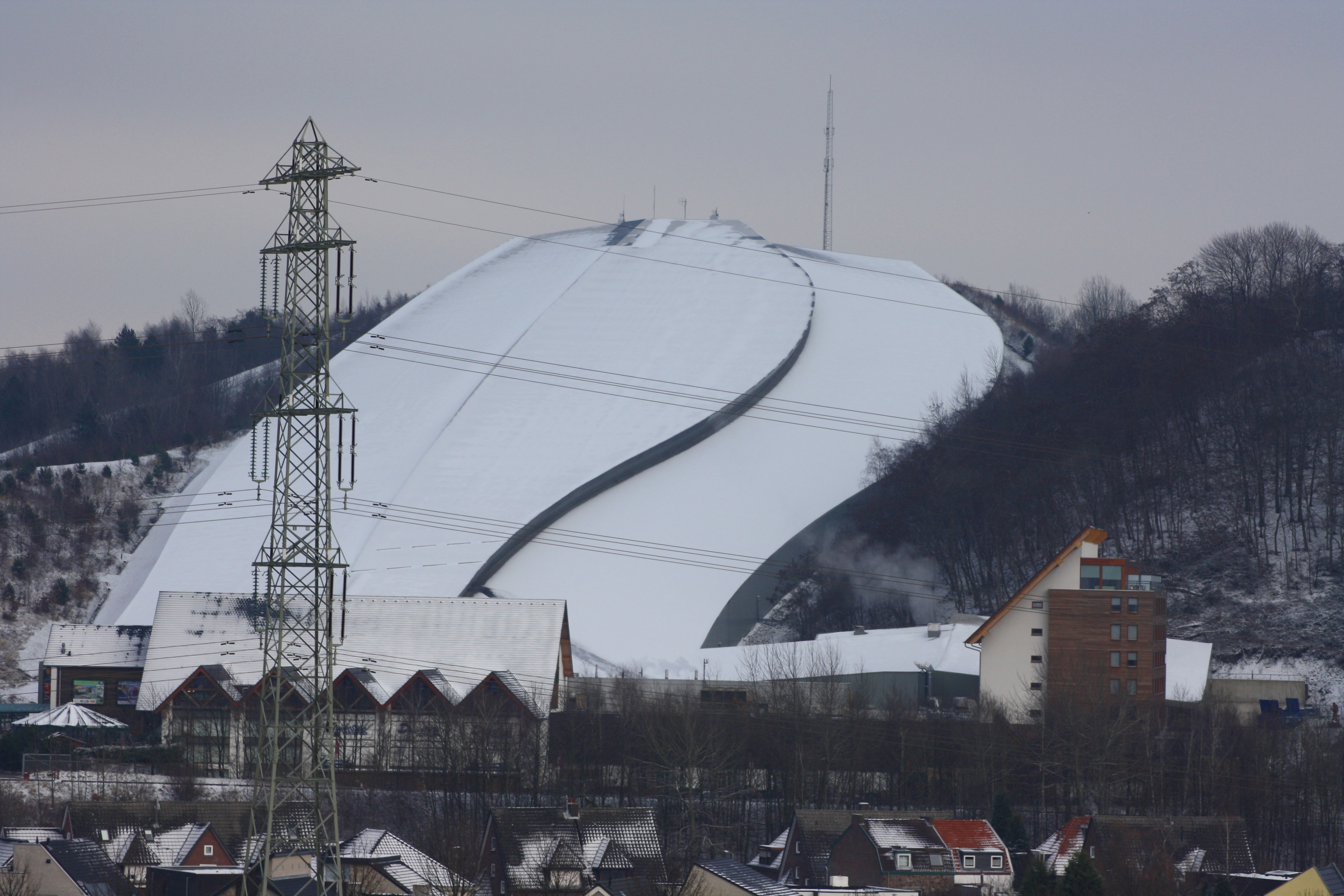 SnowWorld Landgraaf